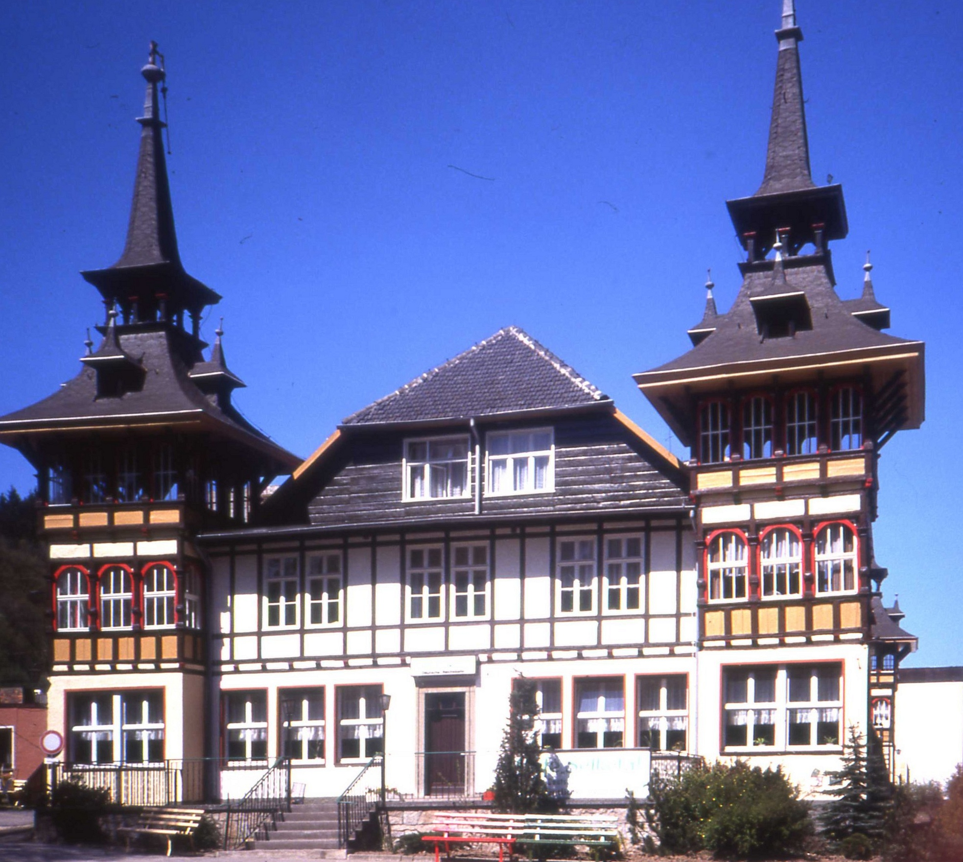 Alexisbad Harz, DDR. Former Deutsche Reichsbahn Erholungsheim May 1990.jpg